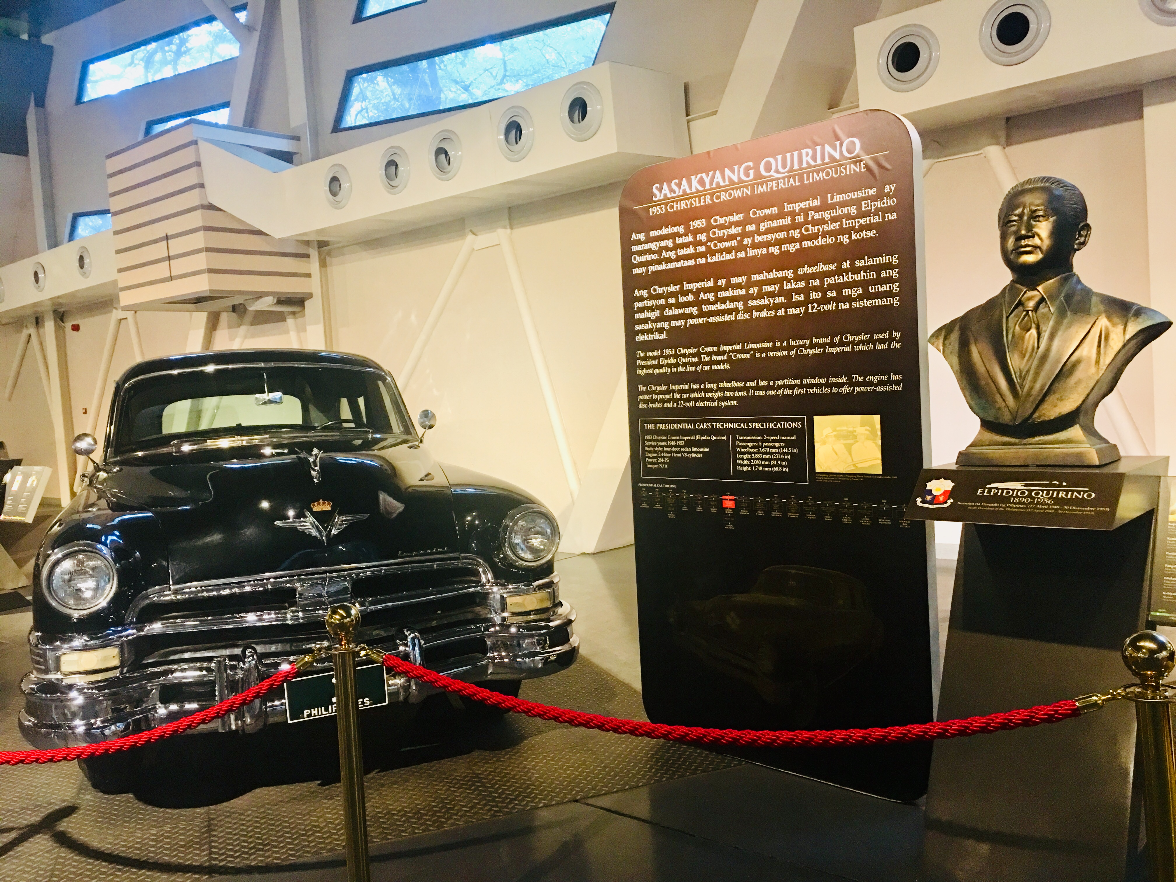 Presidential car of Elpidio Quirino